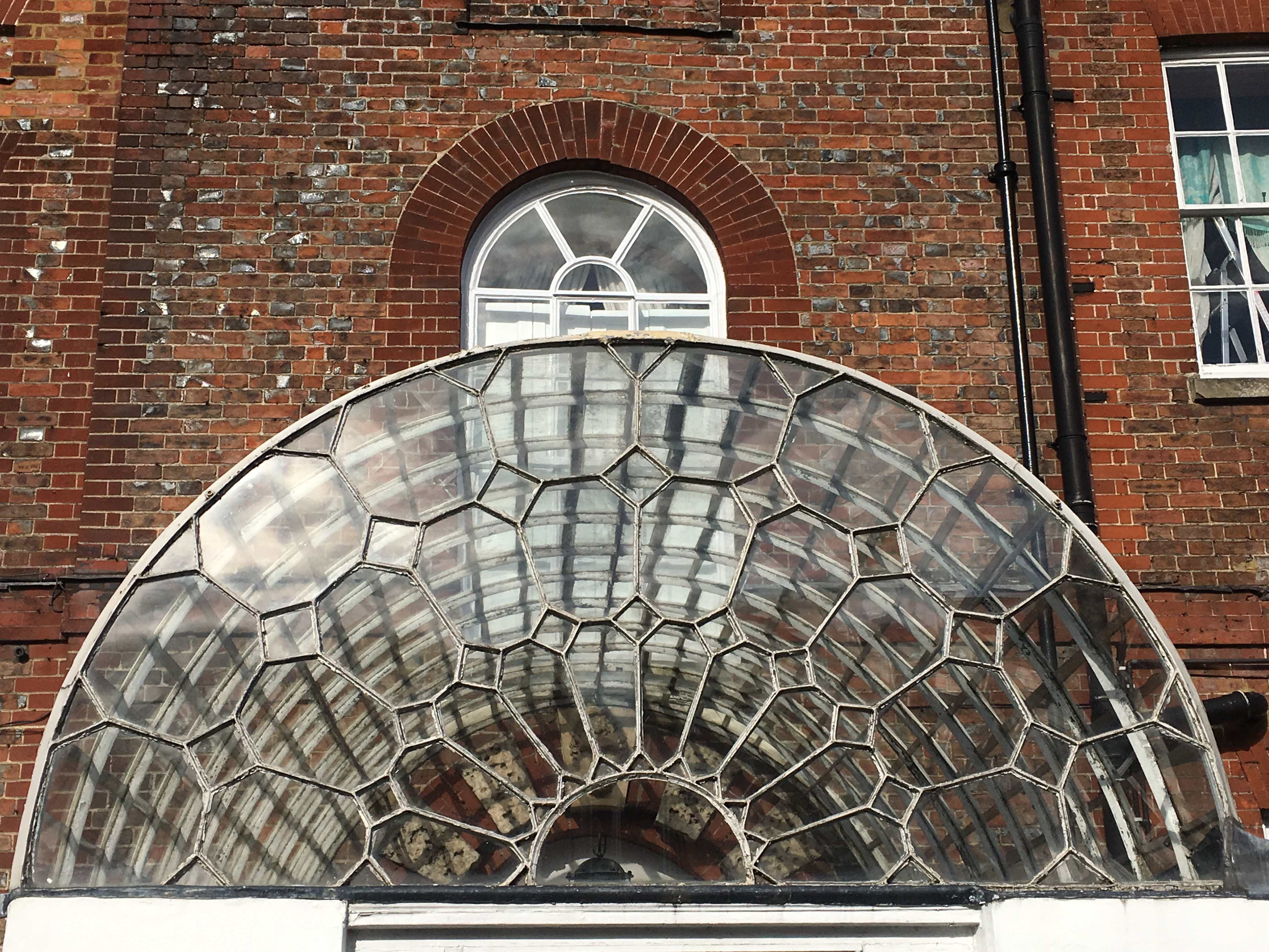 Elmhurst (flats Nos 1-7 Consec) Wikidata has entry Q17540028 with data related to this item.